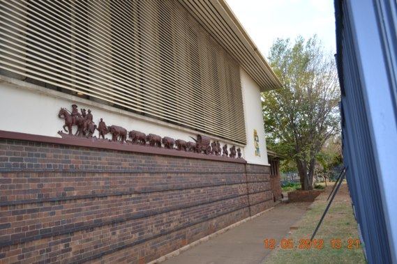 photo of relief